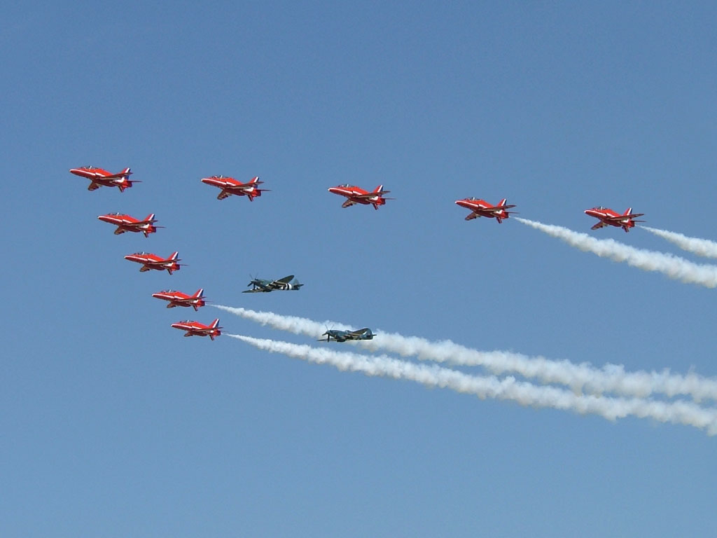 Red Arrows in formation with two Supermarine Spitfire PRXIX's at RIAT 2005.